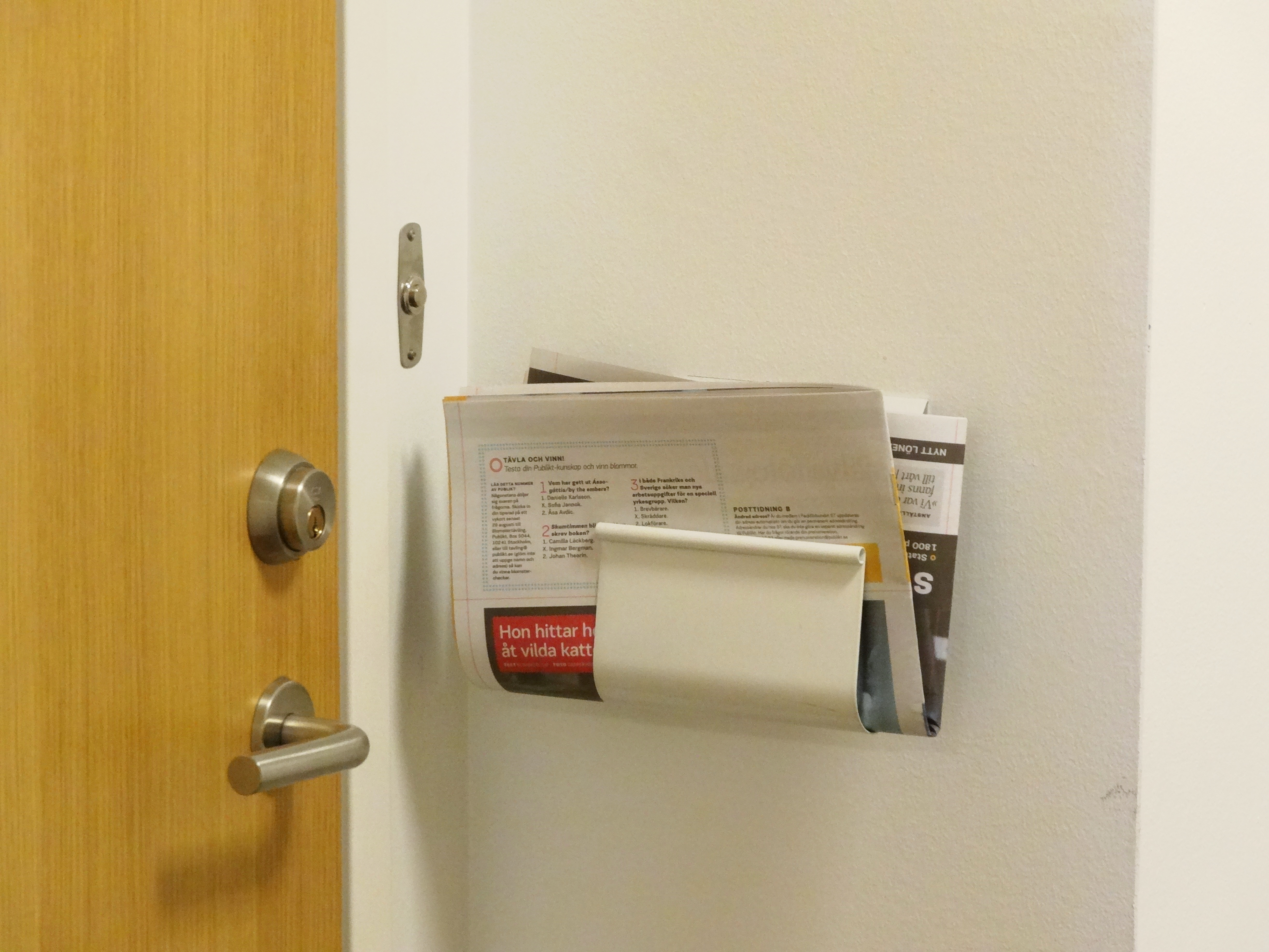 A newspaper in a newspaper holder outside an apartment door in an apartment house in Gothenburg, Sweden.